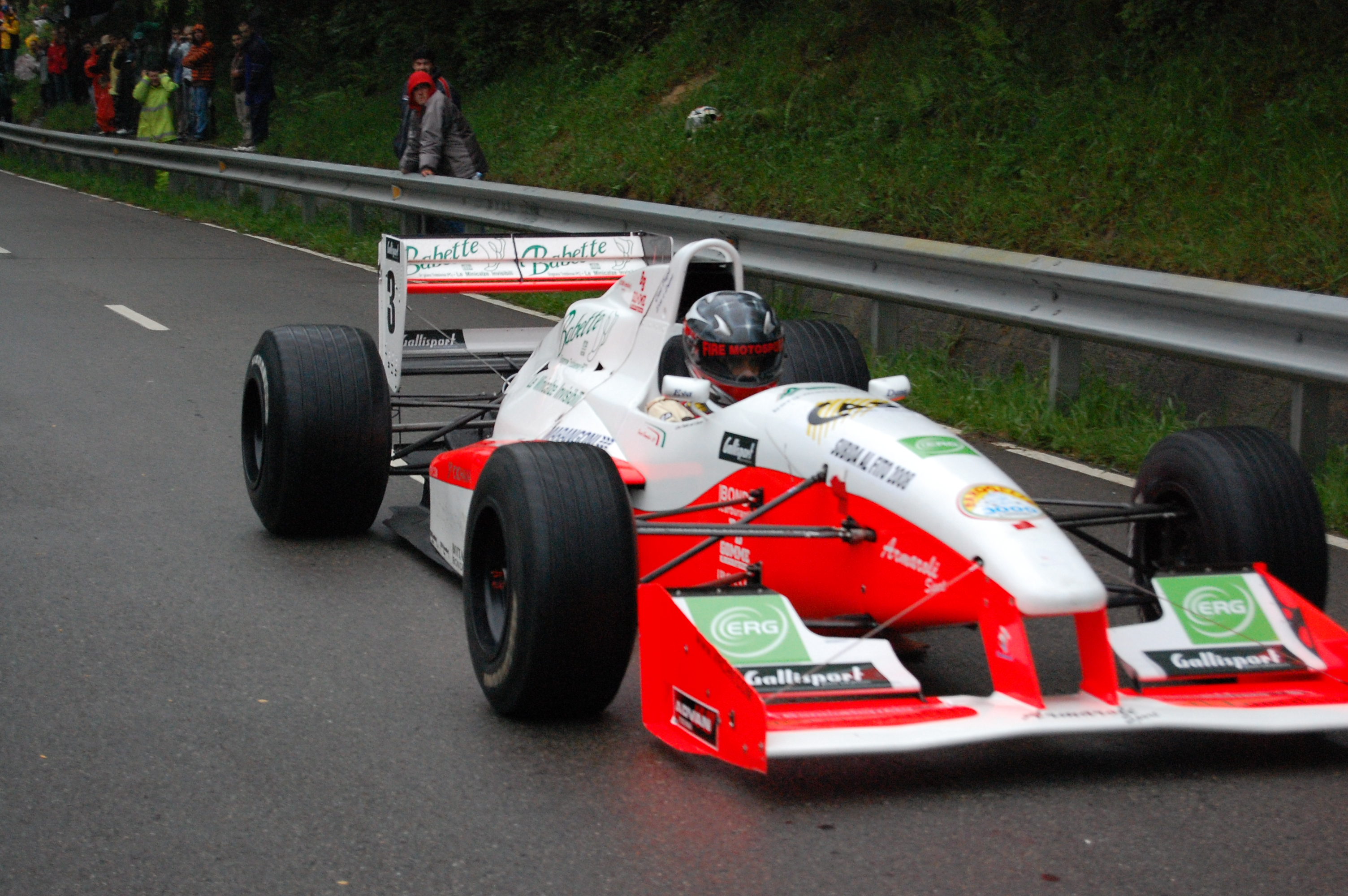 Fausto_Bormolini.Fito Hillclimb 2008. European Hillclimb Championship